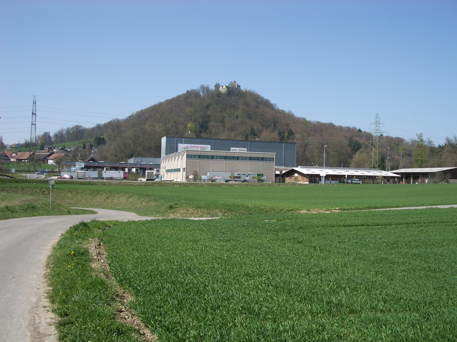 Castle Brunegg, Switzerland